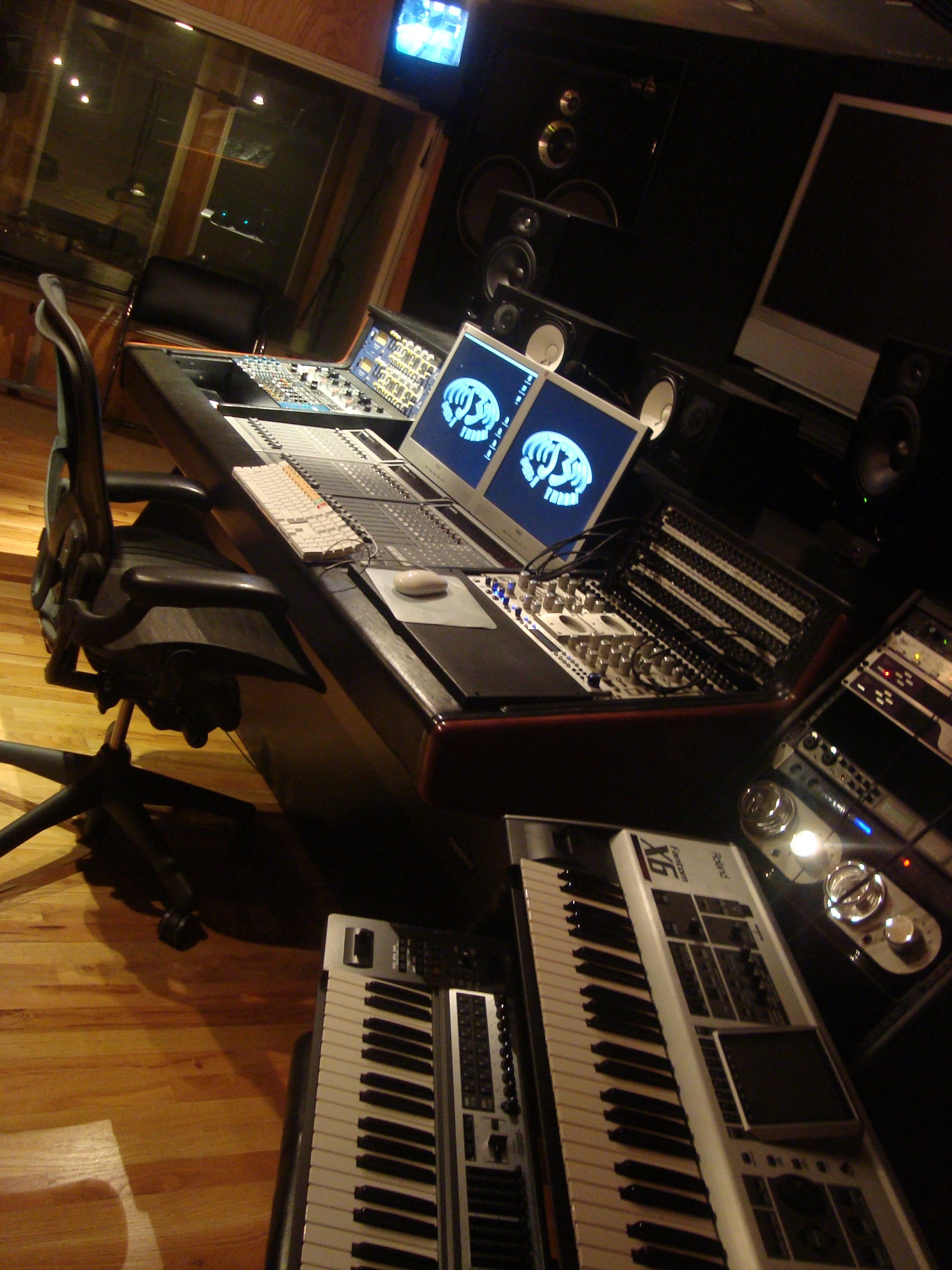 Side 3 Studios by Chris Marez Denver 2009 Mackie Control Universal + 2× Extender unknown large monitors Event Studio Precision 8 Yamaha NS-10M Roland Fantom X6 Edirol PCR800